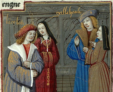 'How the first acquaintance was made with Galhault and the Lady of Malhaut by the Lady of Logres. And how did Lancelot and Galhault go out and chat with their ladies.' (Comment la premiere accointance fut faicte de galhault et de la dame de malhault par le moien de la dame de logres. Et comment lancelot et galhault sen alloient esbatre et deviser avec leurs dames.) Inscriptions: Lancelot and "Gallehault" Paris, Bibl. Mazarine, Inc. 1286 Lancelot in prose (part of) f. 097v Miniature key , literary scene , discussion , Lancelot , Galehot , Lady of Malehaut , headgear , inscription identification , room Northern France (Paris)